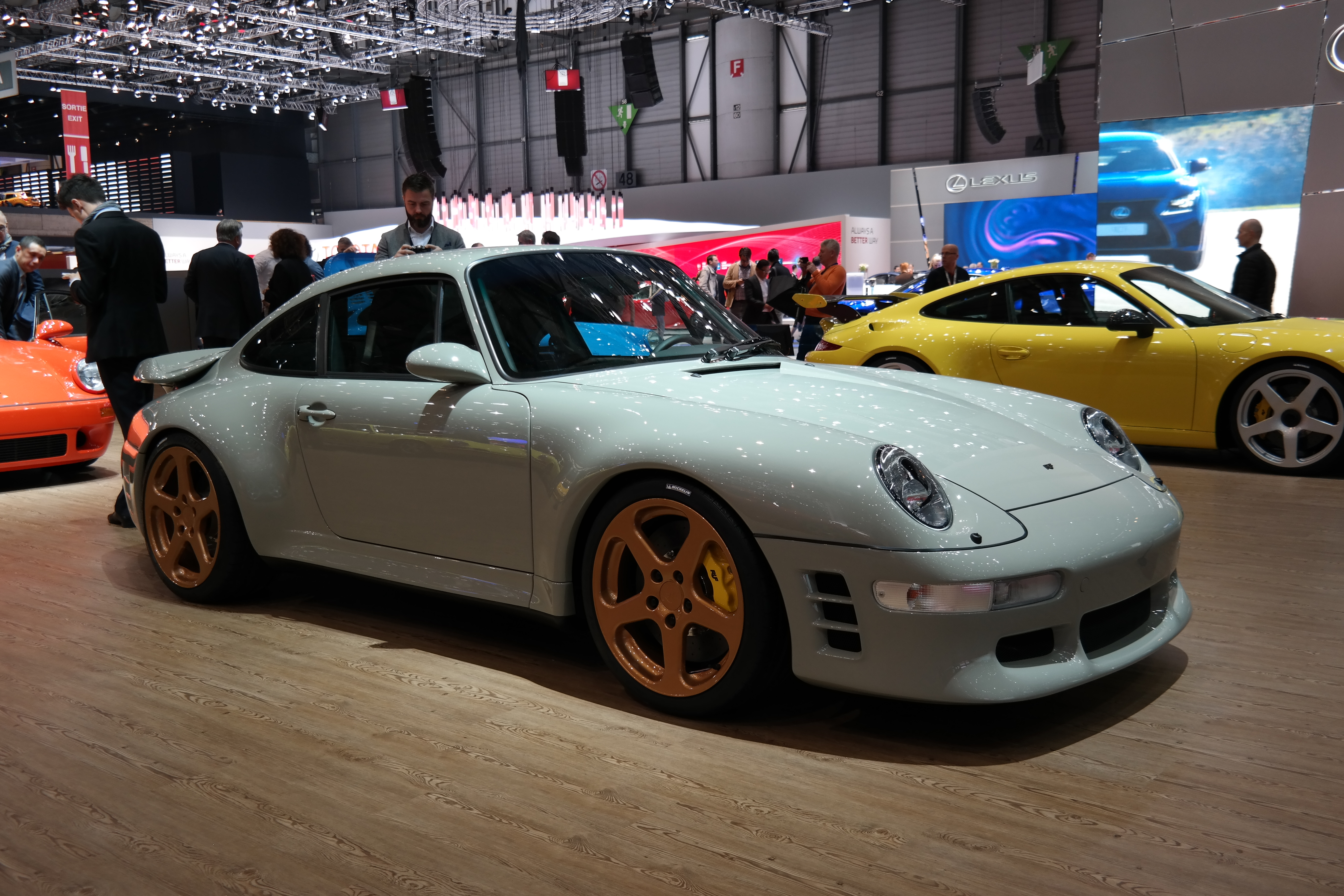 Ruf TurboR Limited at the Geneva Motor Show 2016 (photo taken on the first press day)